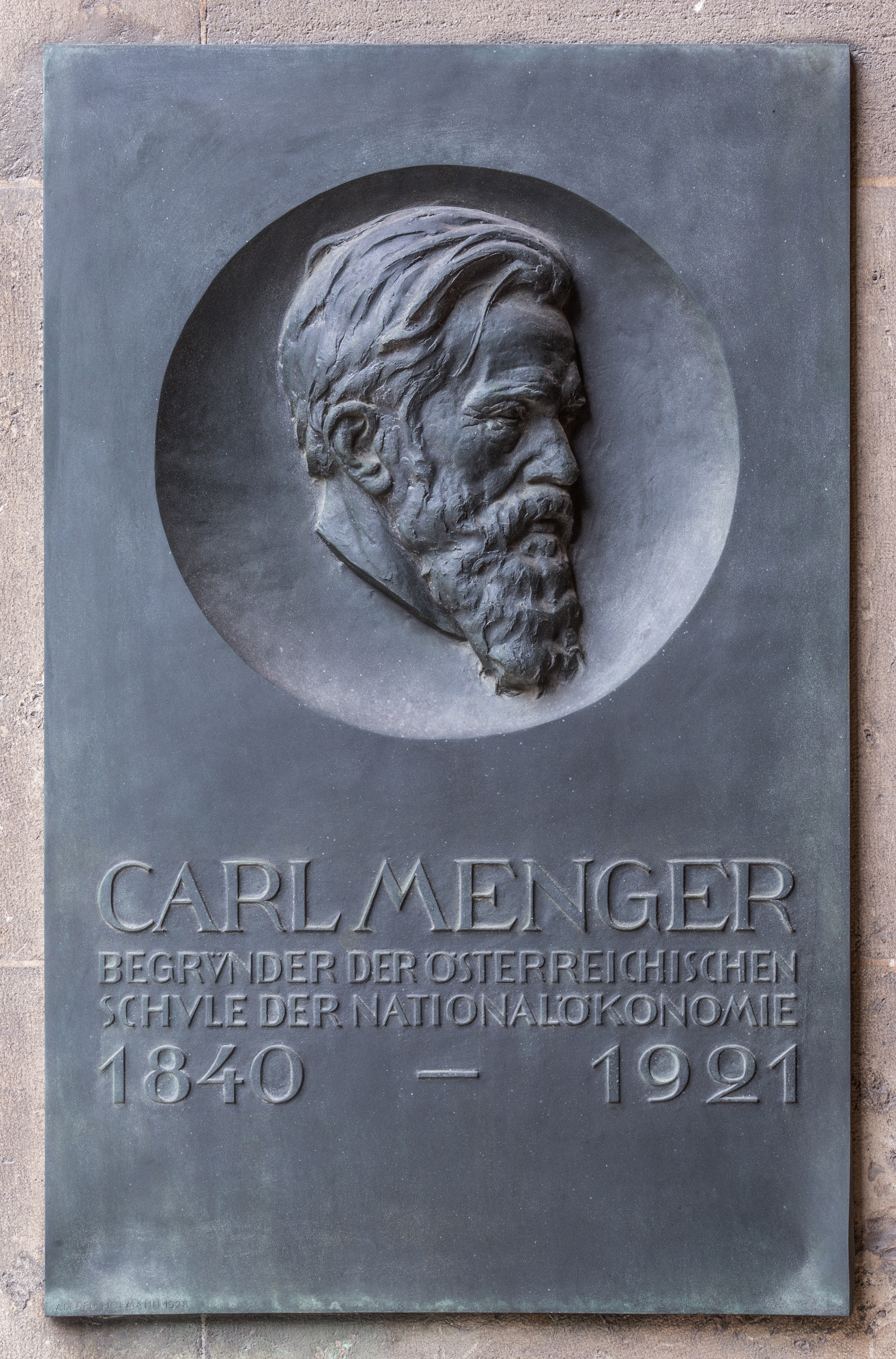 Carl Menger (1840-1921), relief (bronze) in the Arkadenhof of the University of Vienna, (Maisel# 3). Artist: Alfred Hofmann (1879-1958), unveiled 1929